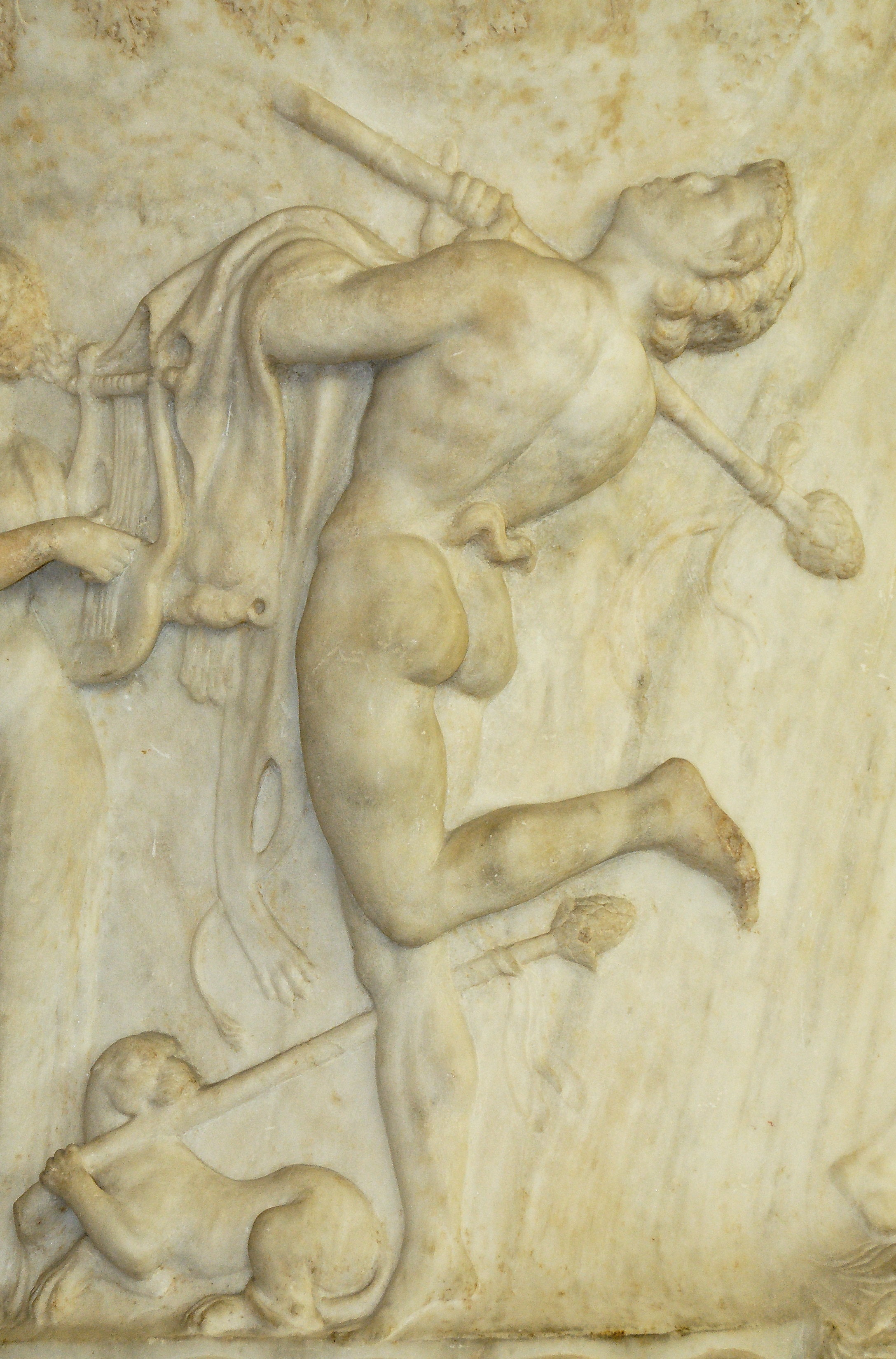 Dancing satyr wearing a pardalis and holding a thyrsus in the right hand and a Panther fur-skin in the left hand; below a panther holding a thyrsus. Detail of the side A from the Borghese Vase. Attic work. Found in 1569 in the Horti Sallustiani, Rome.